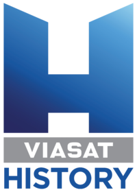 logo